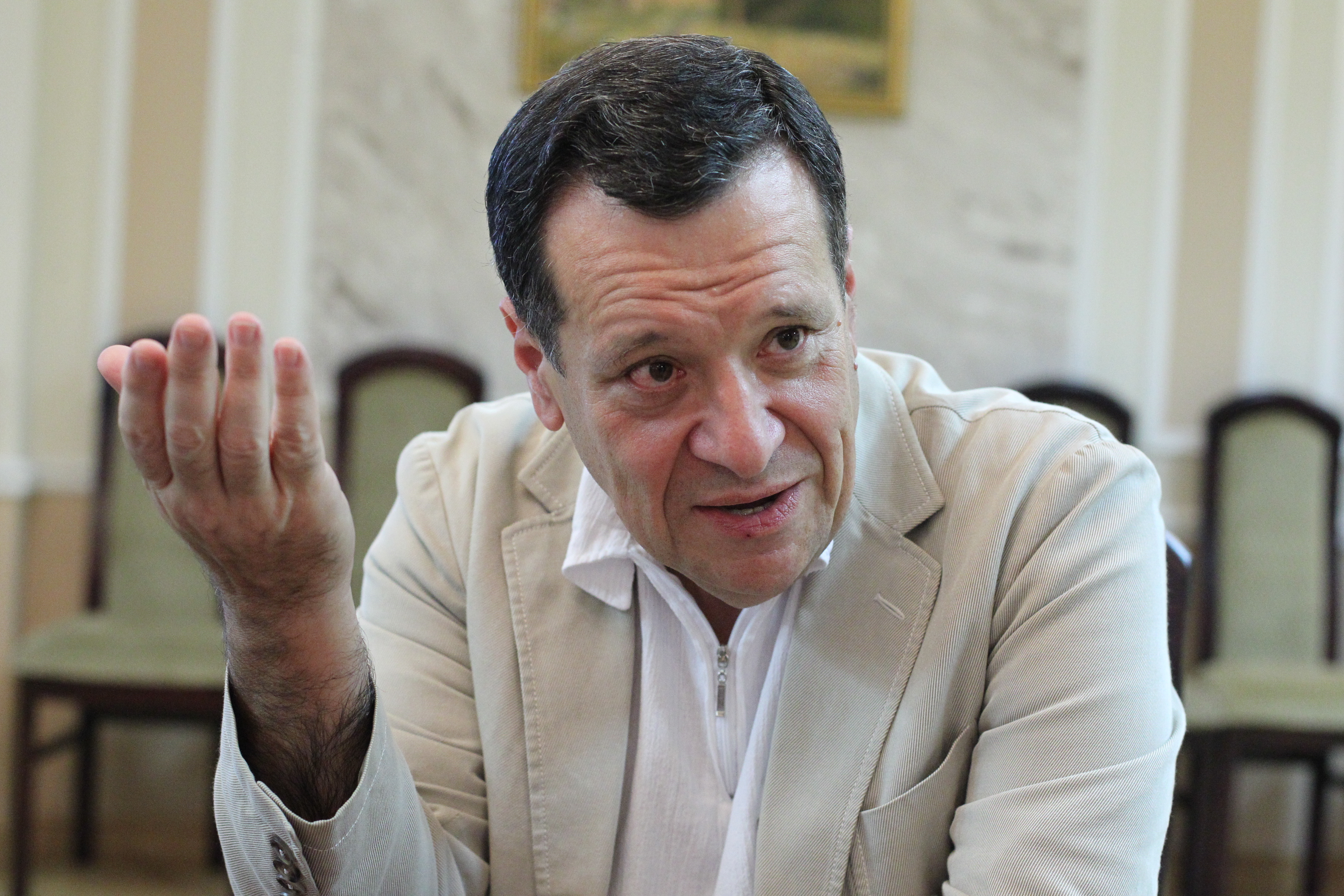 Russian politician Andrey Makarod